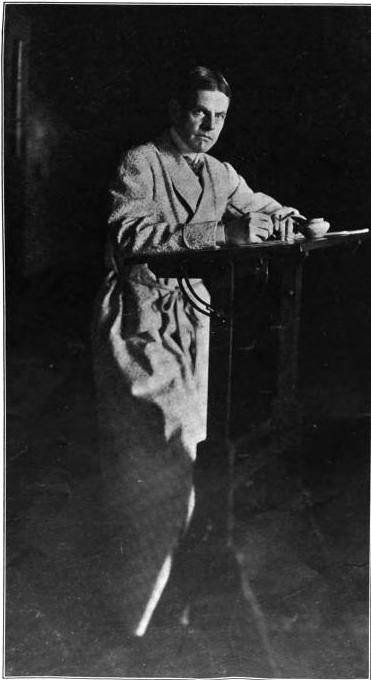 Photograph of American journalist David Graham Phillips (1867-1911), appearing in The Bookman (March 1911), p. 8 (Volume 33, Issue No. 1)